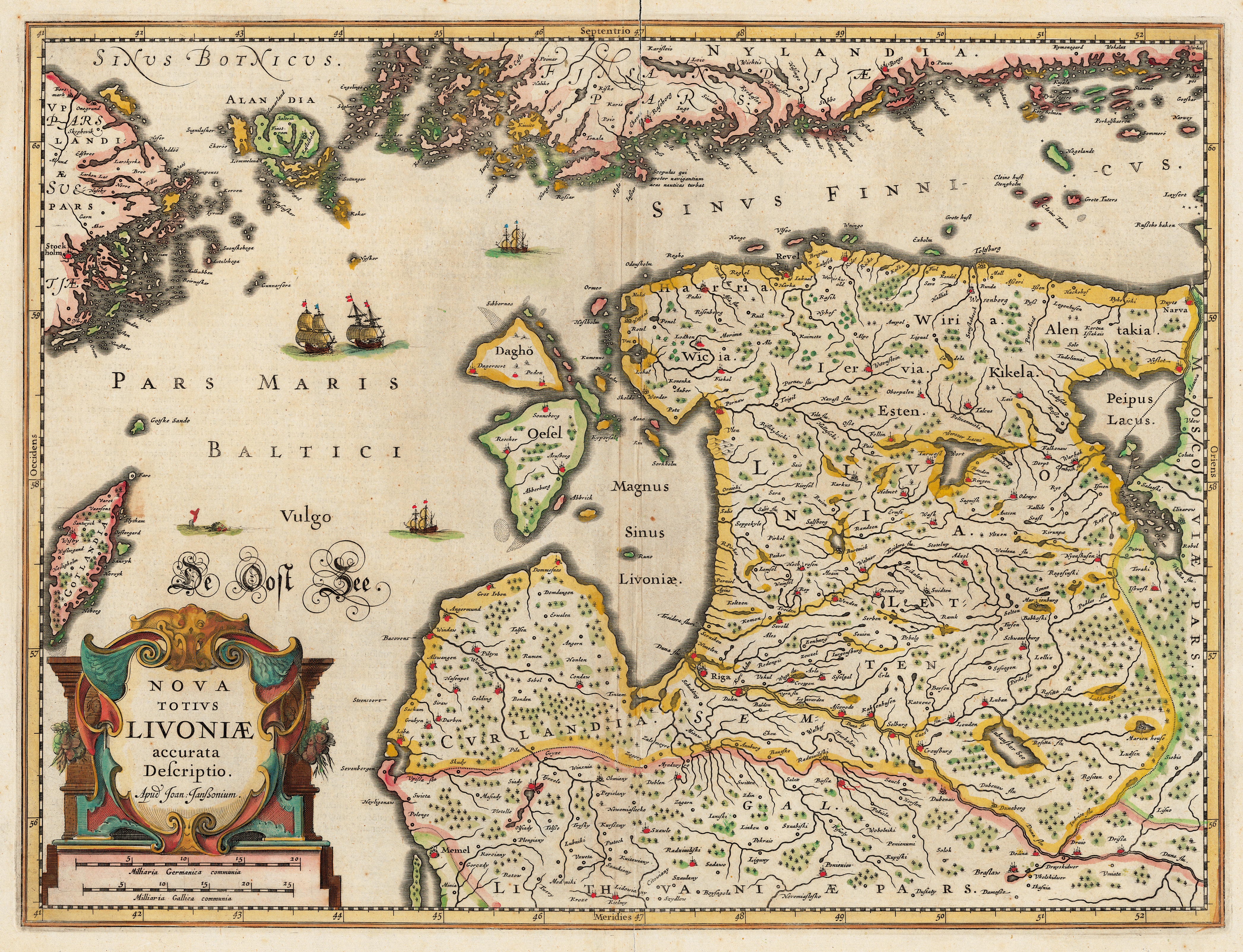 Nova totius Livoniæ accurata descriptio Published in: Nouveau theatre du monde ou nouvel atlas in Amsterdam. Copper engraving, ca 1:1 500 000, 50 x 37 cm.